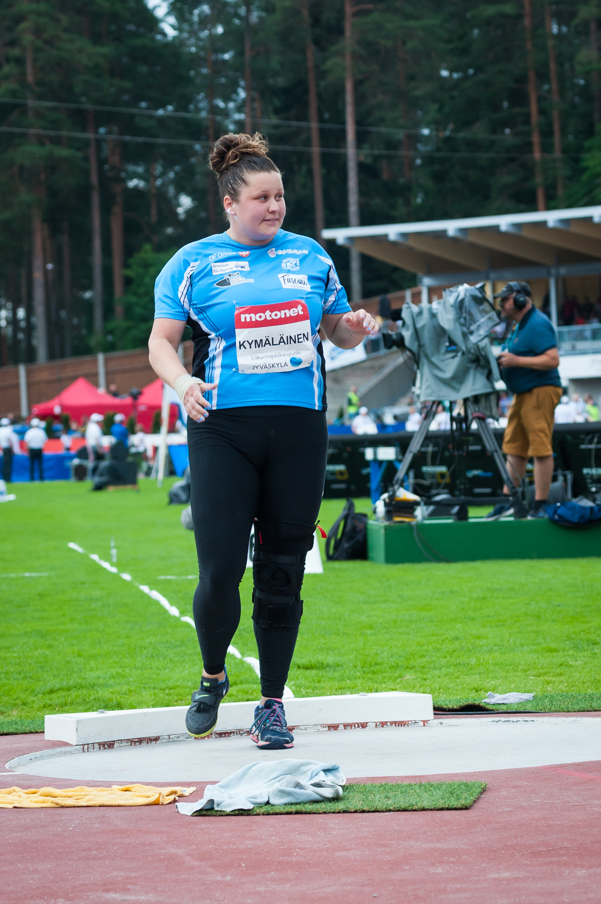 Women's shot put competition at the 2018 Kalevan Kisat, the Finnish championships in athletics, in Jyväskylä, Finland.